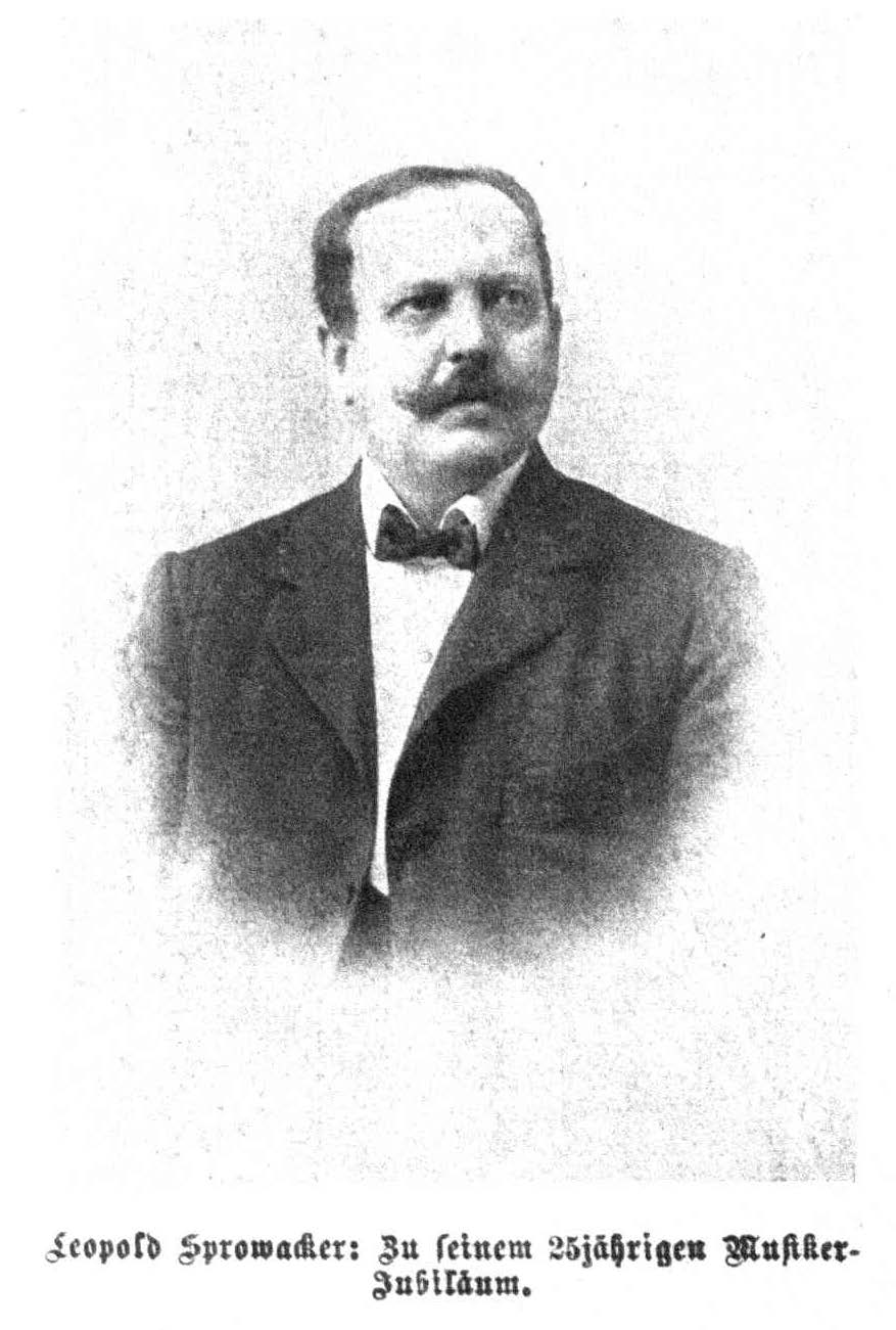 Portrait of the composer Leopold Sprowacker